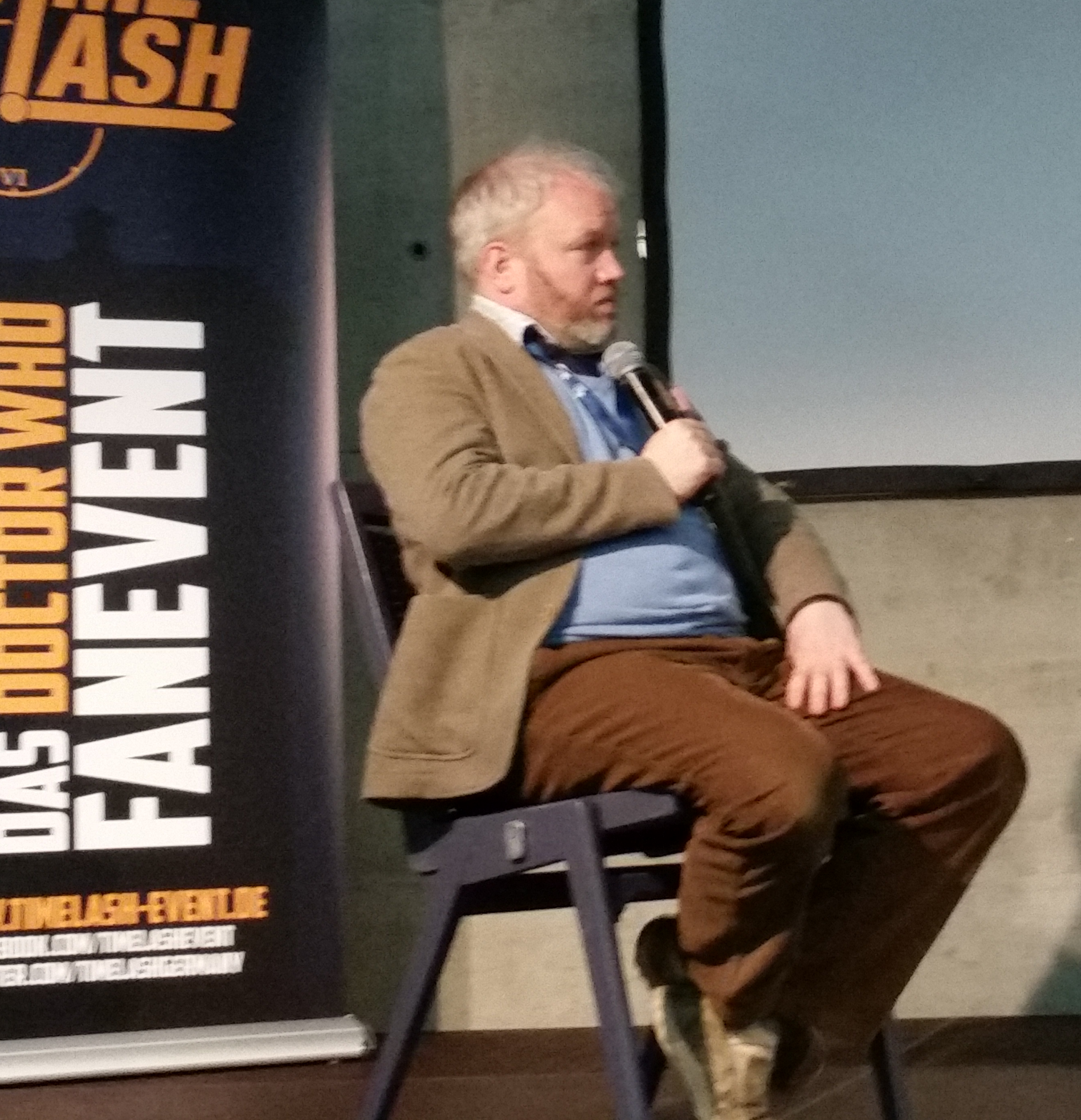 Actor, comedian and author Toby Hadoke on October 28, 2017 at Doctor Who Fanevent TimeLash in Kassel